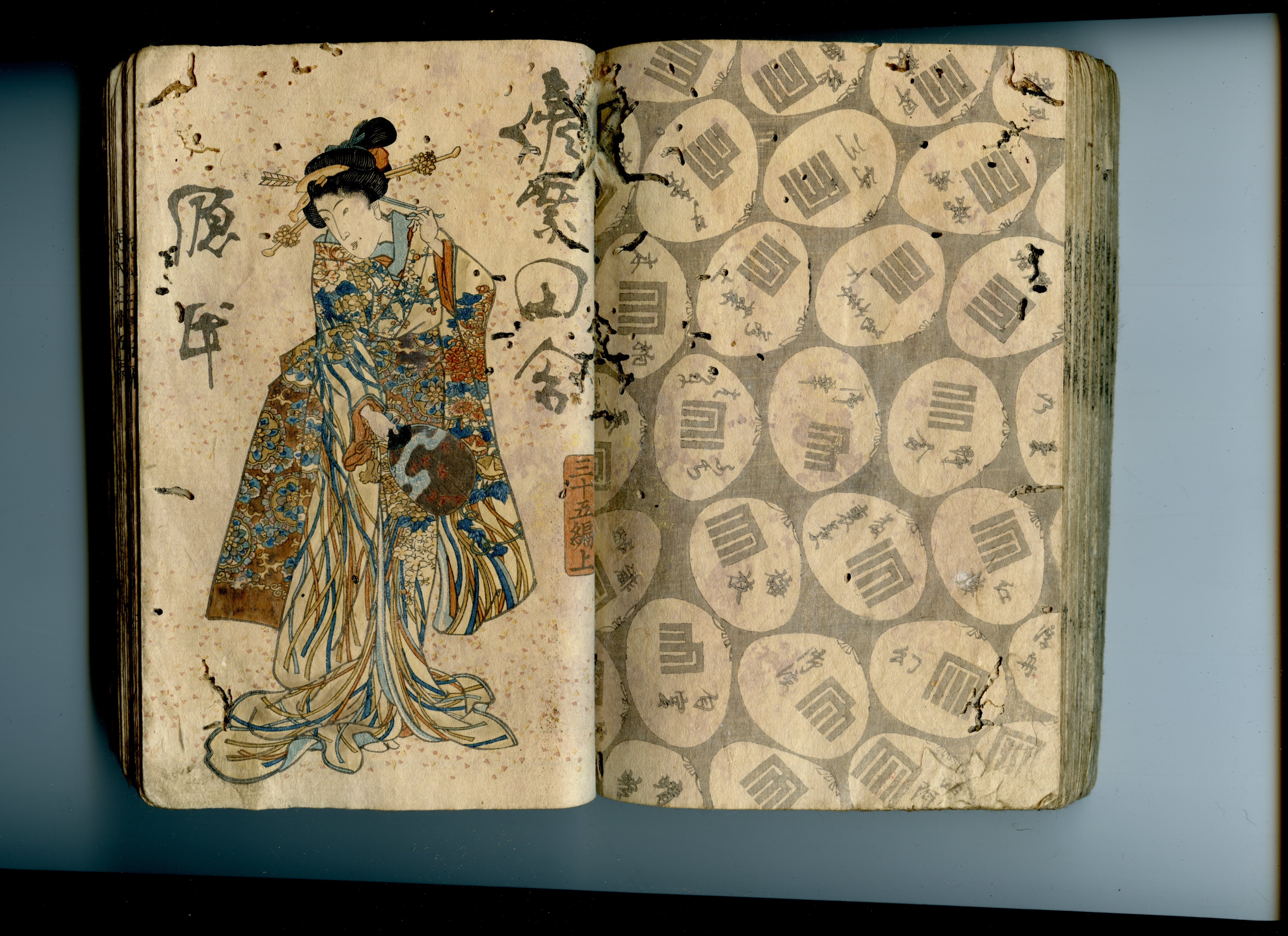 cover from an ehon in the series, test scan